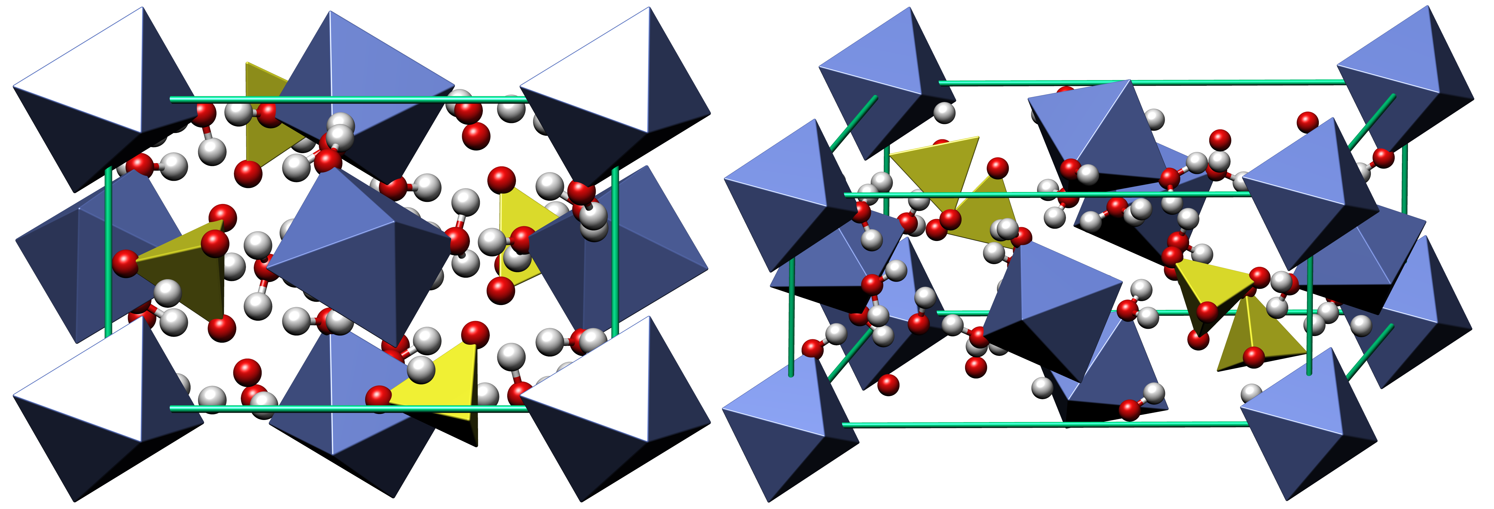 Crystal structure of melanterite - FeSO4·7H2O. Fronczek F R, Collins S N, Chan J Y; Acta Crystallographica E57 (2001) i26-i27 Colour code: Iron, Fe: blue Sulfur, S: olive Hydrogen, H: white Oxygen, O: red Cell: blue-green